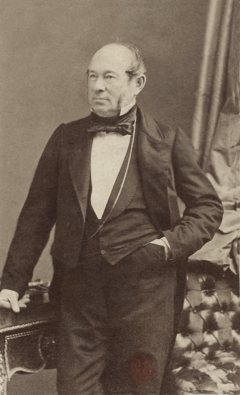 Isaac Strauss (1806-1888), french conductor, composer and collector.